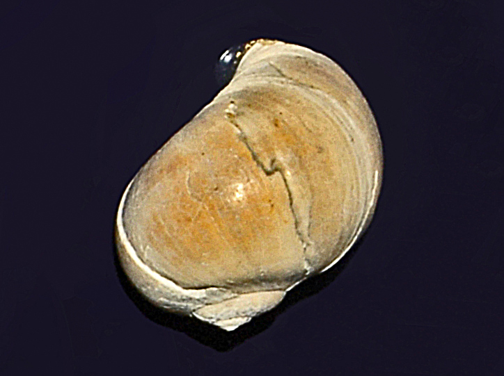 Fossil shell of Euspira catena from Pliocene of Italy, on display at the Museo Paleontologico, Asti